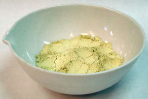 Author: Val Patterson I took this picture myself in March 2007, I authorize anyone to use this picture freely